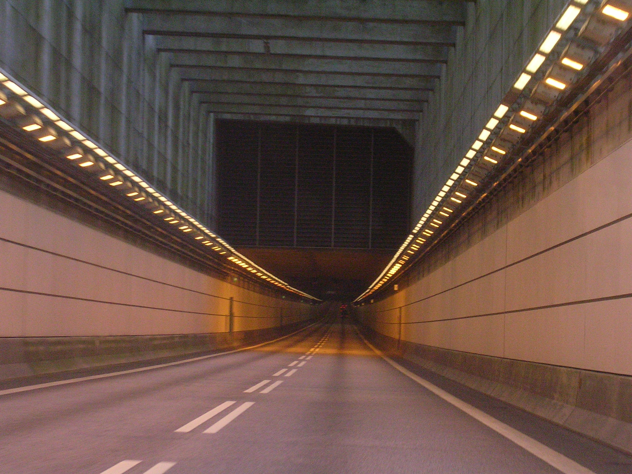 The tunnel of the Øresund bridge Author: Väsk